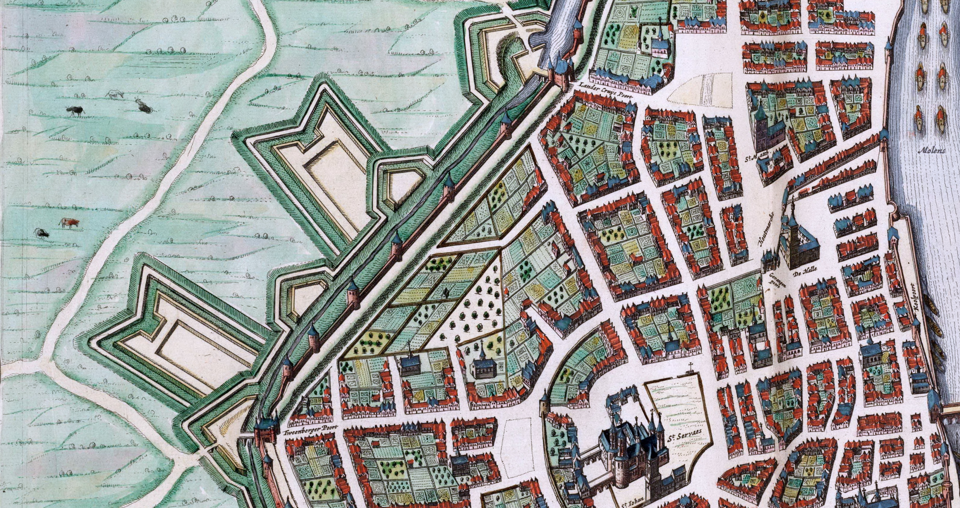 Maastricht, the Netherlands. Detail of a map of Maastricht from the Atlas van Loon (Blaeu, 1652) showing the northwestern section of the 17th-century fortifications between Brusselsepoort and Lindenkruispoort.